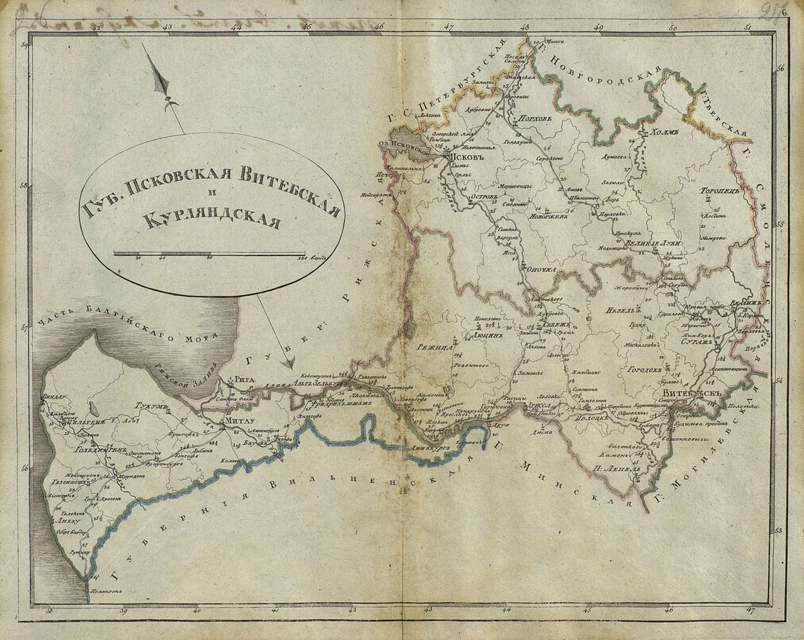 Pskov, Vitebsk and Courland Governorate